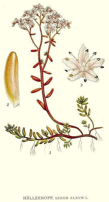 Original Description Hällknopp, Sedum album L.